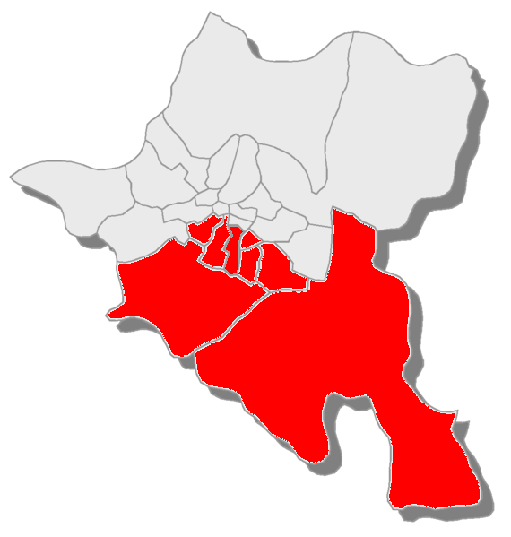 Map of 23 electoral region in Sofia.